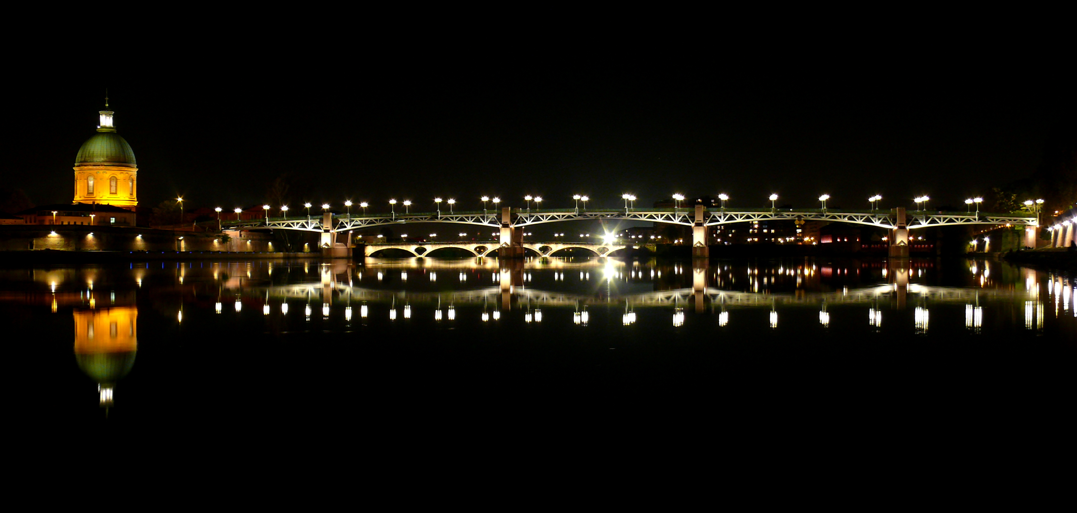 Toulouse (France) : Saint-Pierre bridge and La Grave hospital.